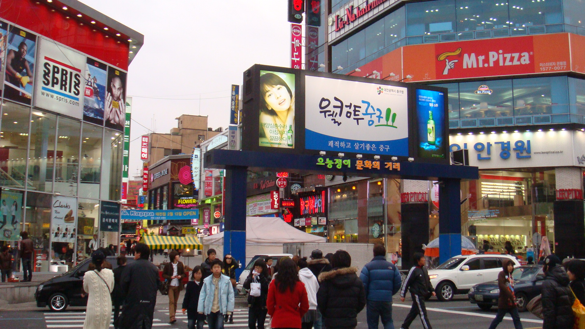 thanks to the Commonist